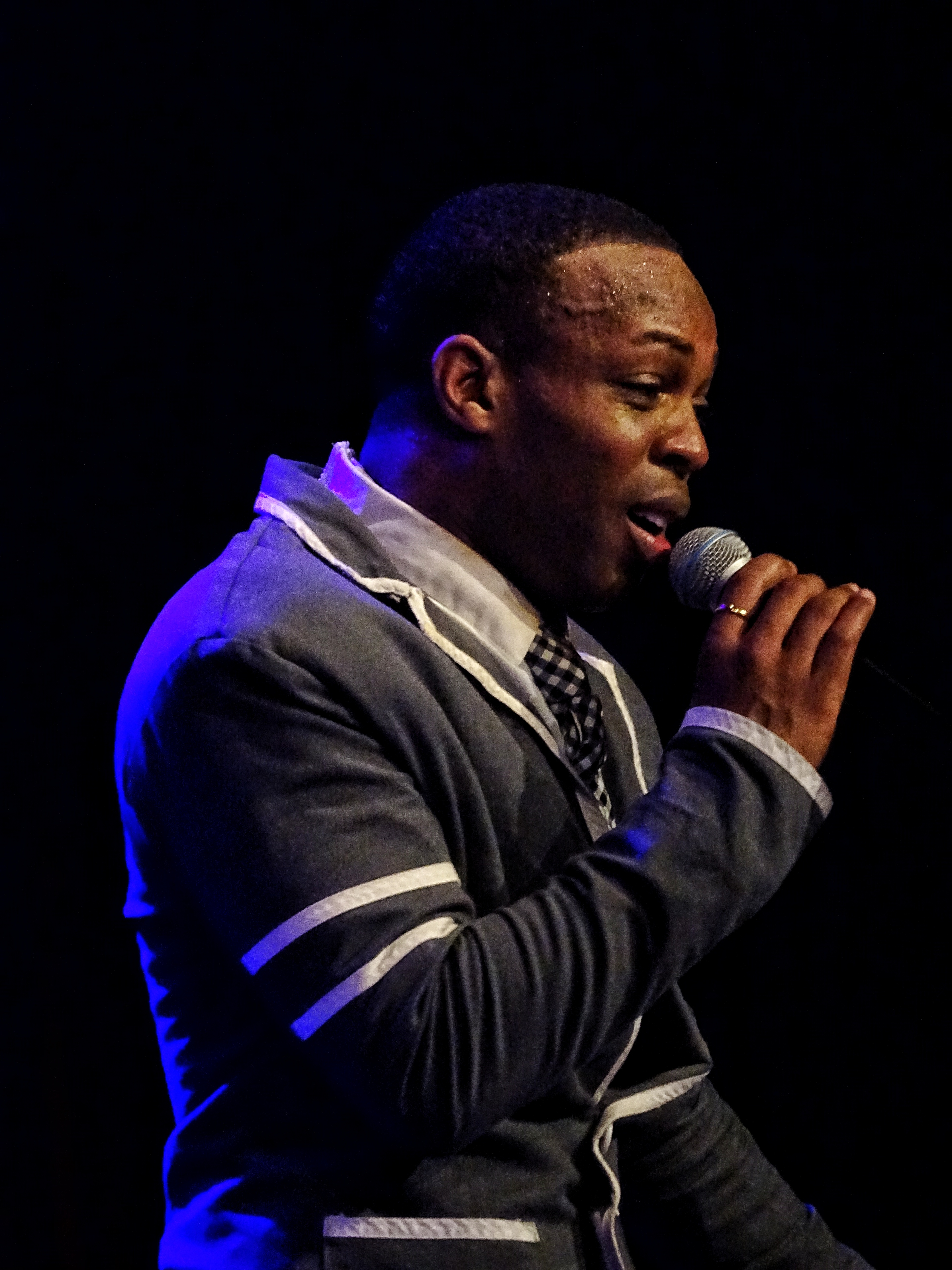 Todrick Hall's #StraightOuttaOz Tour, Gloria, Cologne on May 26 2017